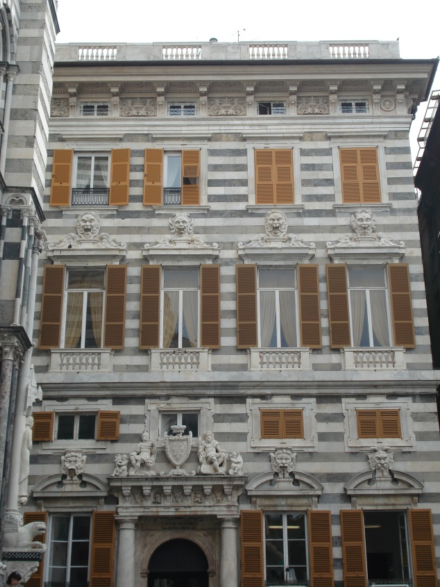 Sinibaldo Fieschi Palace in Genova